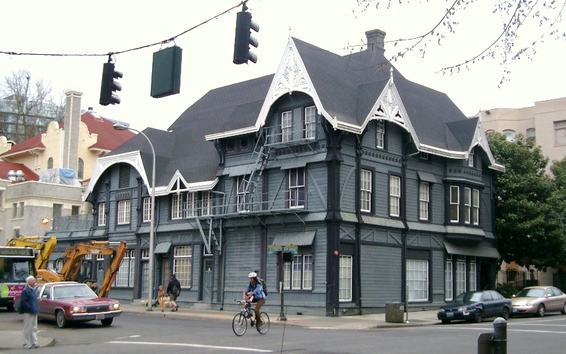 The Ladd Carriage House in Portland, Oregon prior to its June 16, 2007 temporary move.